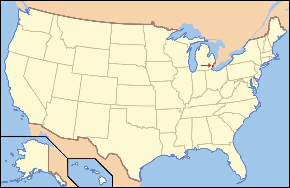 Modification of the US Locator Blank map for the Protected area infobox. This is used in the Detroit River article.